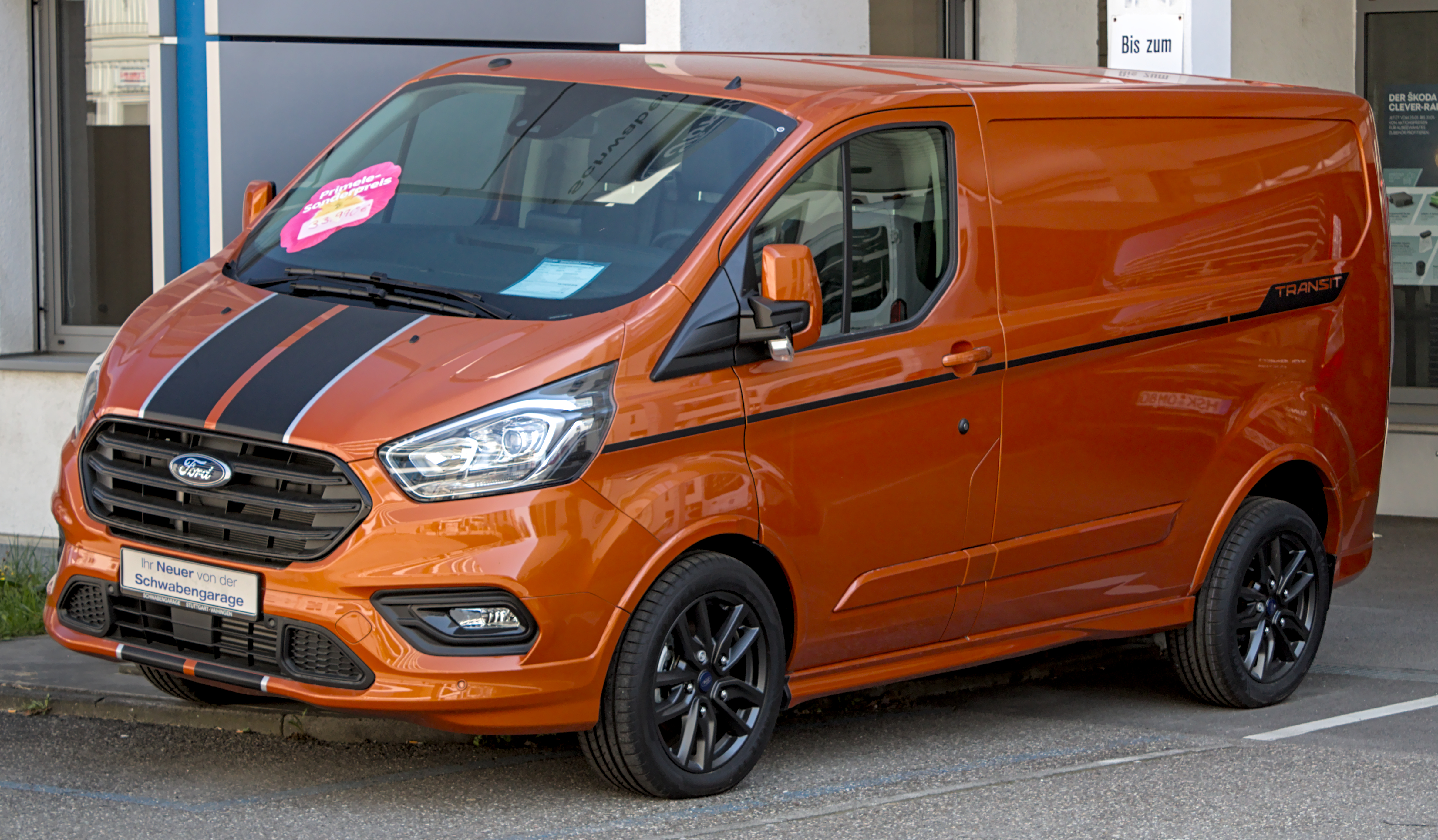 Ford_Transit_Custom_Sport in Stuttgart-Vaihingen